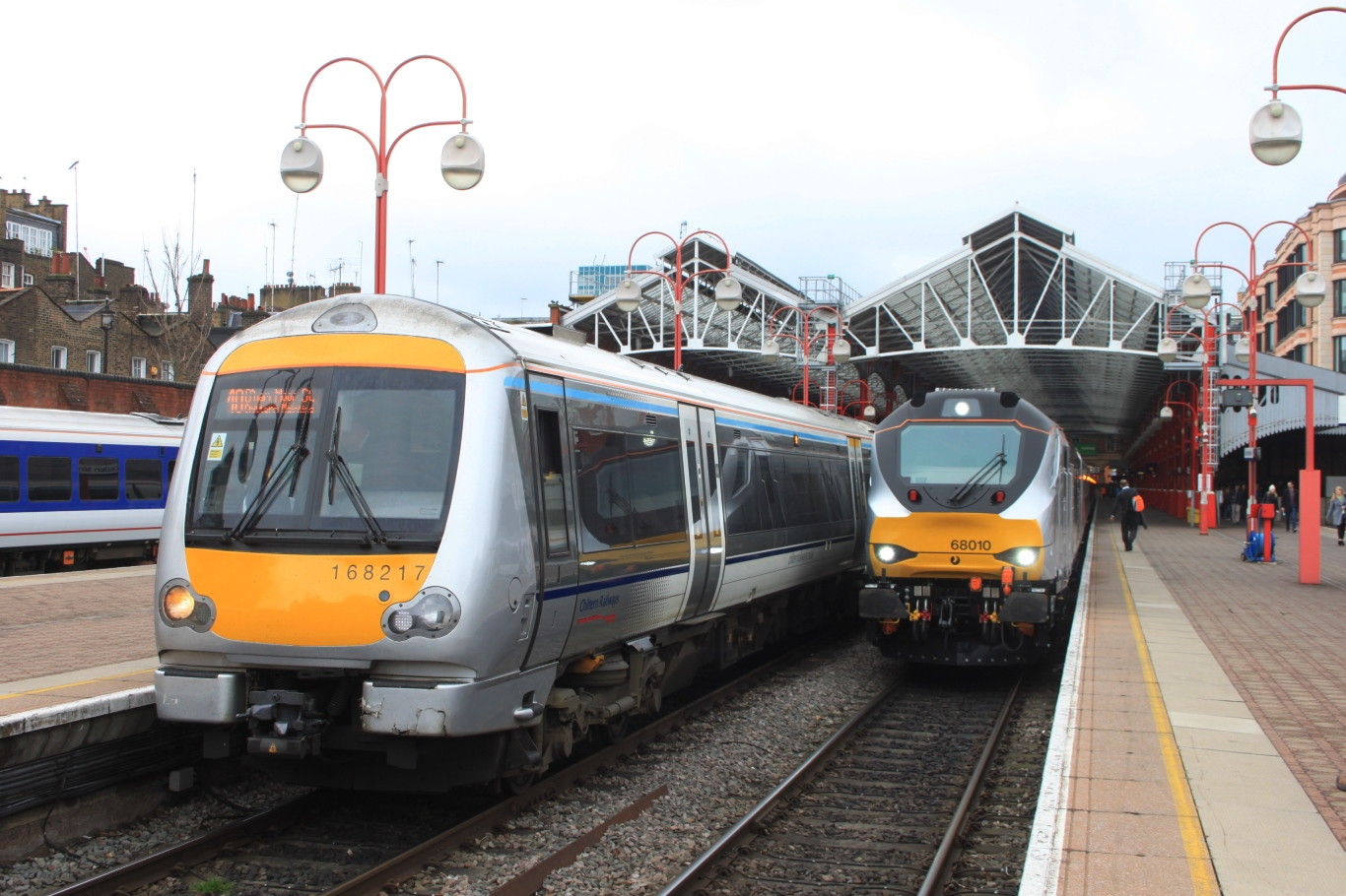 A pair of Chiltern Railway services at London Marylebone, ready for their journeys to Birmingham Snow Hill. On the left is an eight-car multiple unit with 168217 in the lead which is just about to depart; on the right is a locomotive-hauled set powered by 68010 which will follow in half an hour.